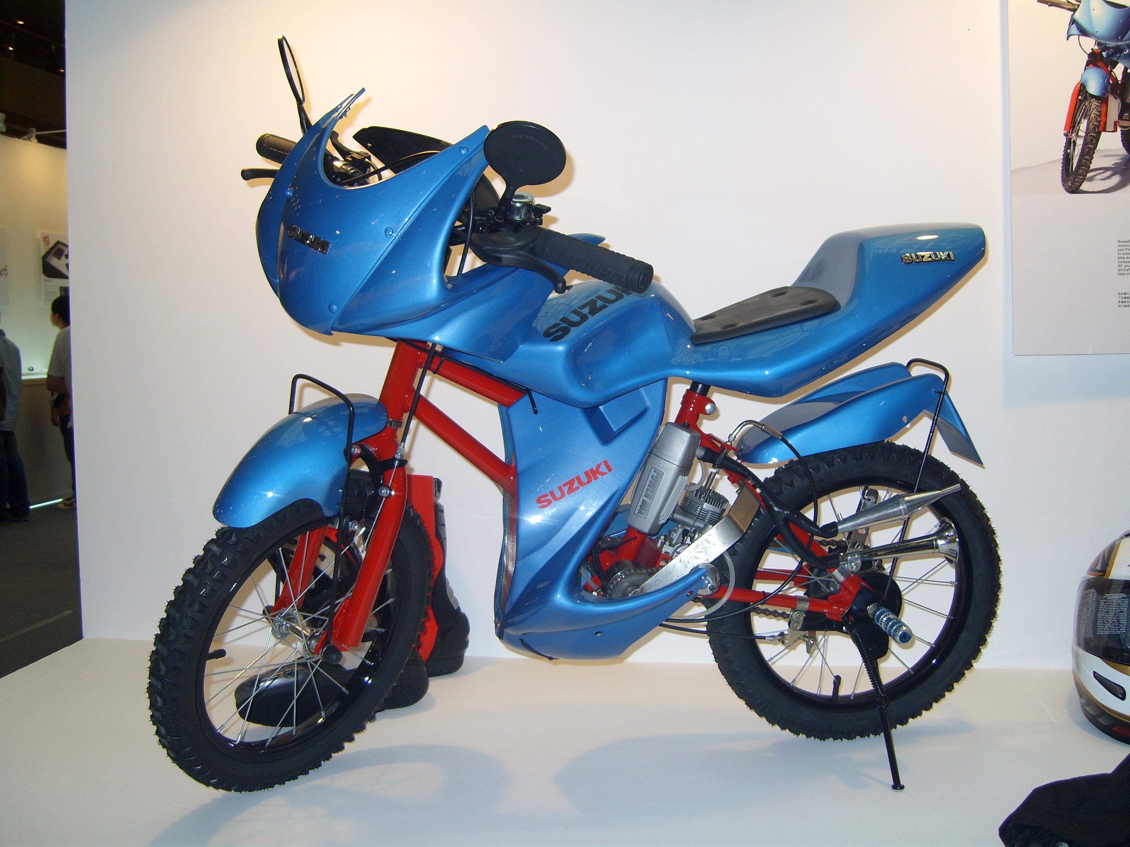 2008 Young Designers' Exhibition: Suzuki - "Play", a conceptional motorcycle.